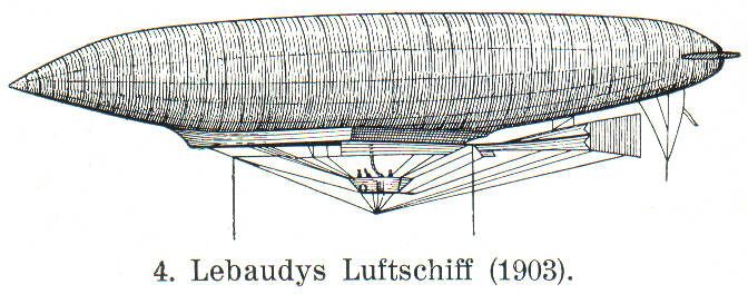 Lebaudy's airship (1903). Lossless crop from scan of Meyers Blitz-Lexikon, Leipzig, 1932.